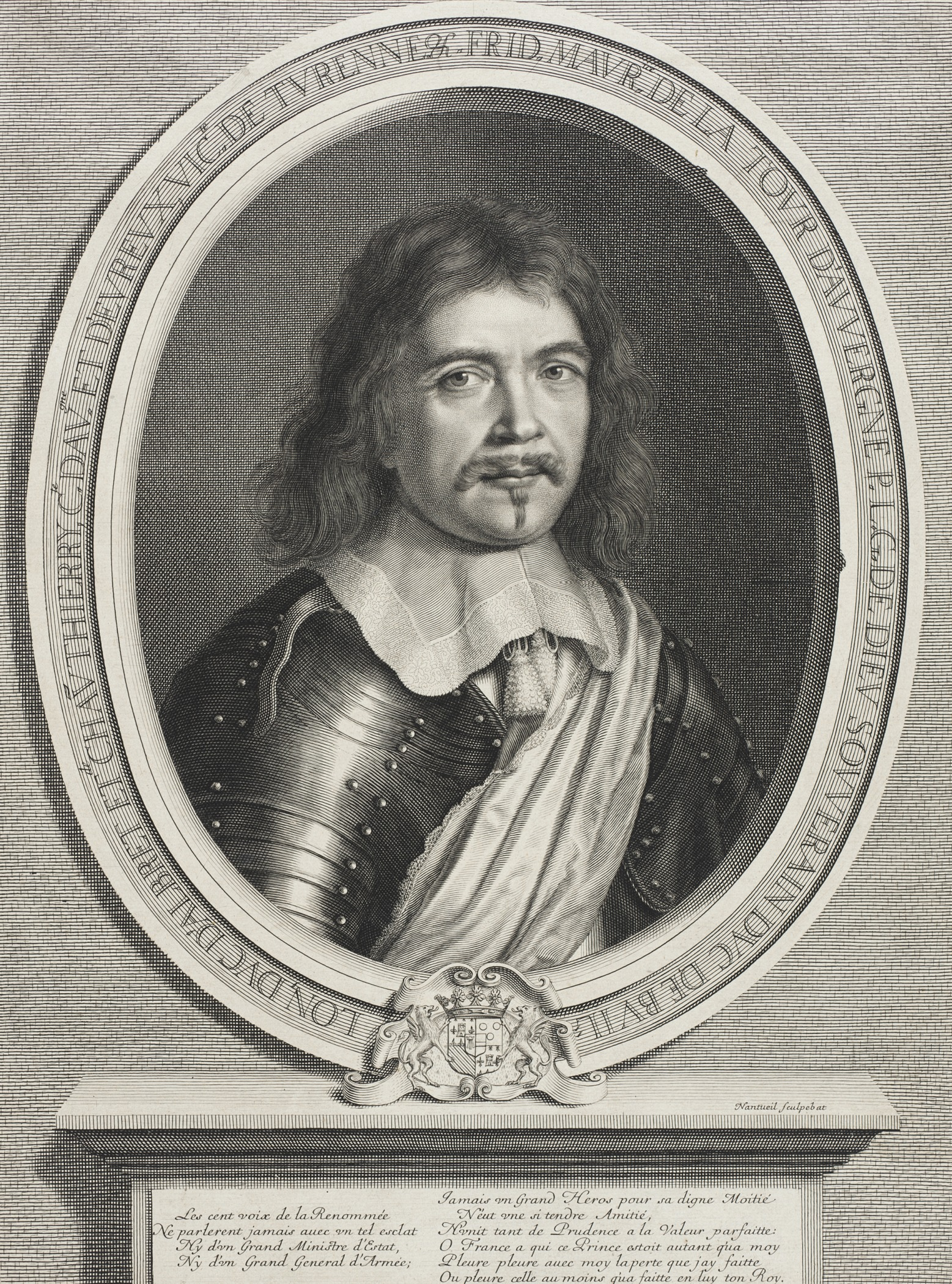 France, circa 1655-1656 Prints; engravings Engraving Gift of Connie and Ted Harris (AC1992.147.2) Prints and Drawings